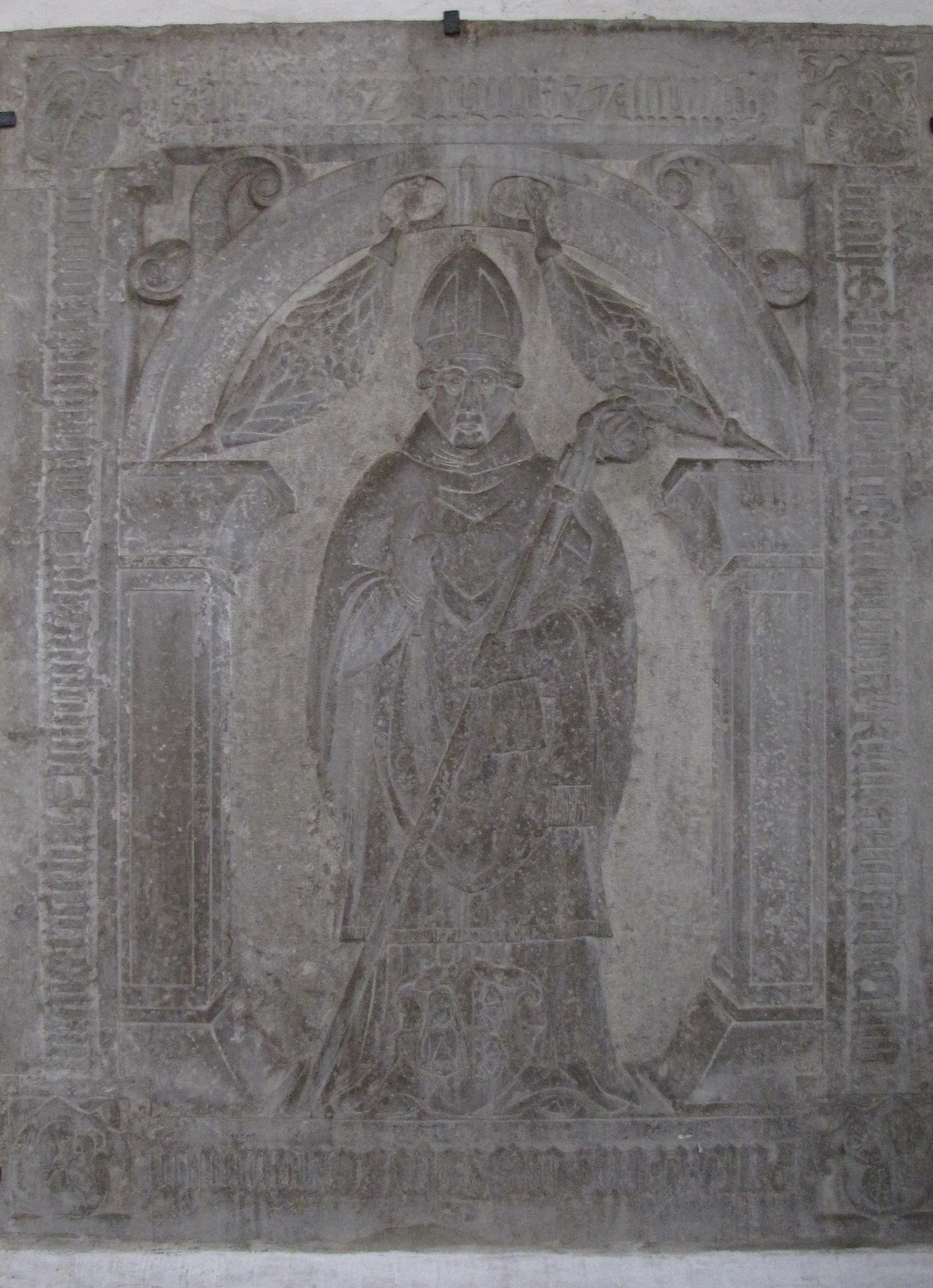 Grave stone for bishop Johannes VIII. Grimholt in Lübeck Cathedral